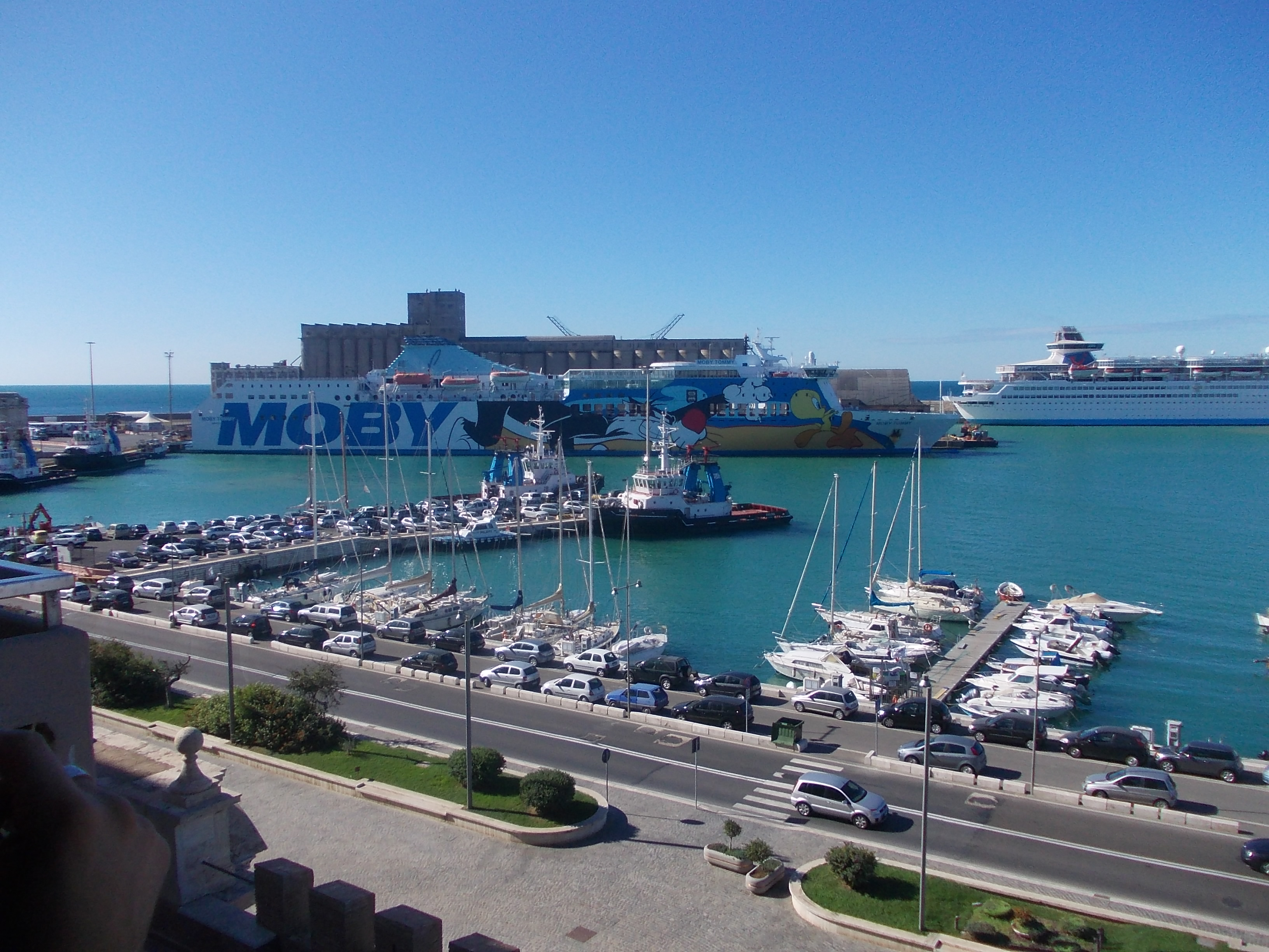 Civitavecchia harbour